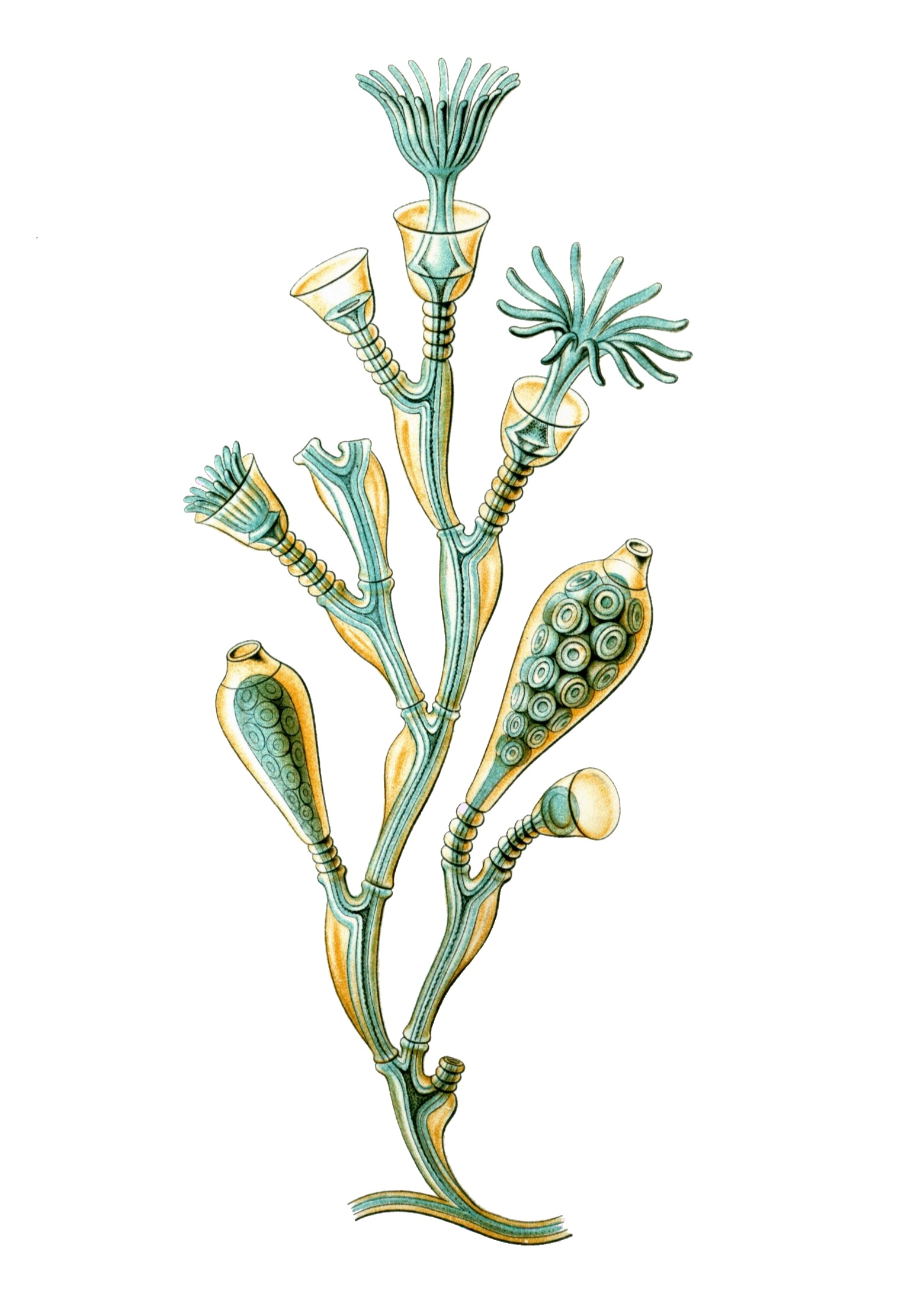 Obelia geniculata (Linnaeus, 1758), colony with 3 hydranths and 2 gonophores